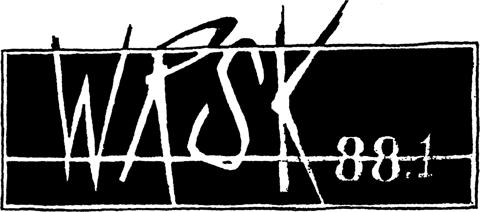 Alternate version of WRSK-FM's 1997 logo.